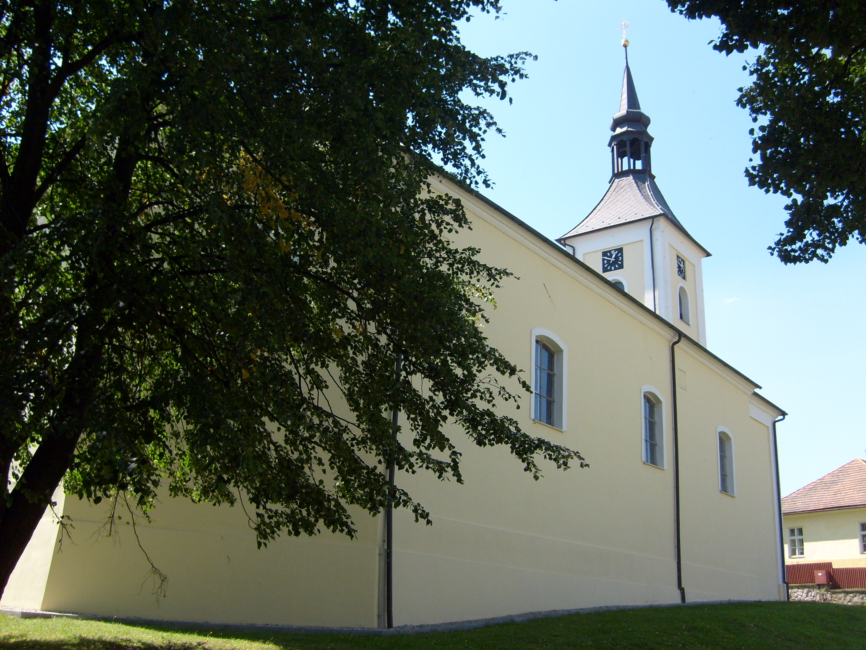 SS Peter and Paul church in Brodek u Konice, Prostějov District, Olomouc Region, Czech Republic